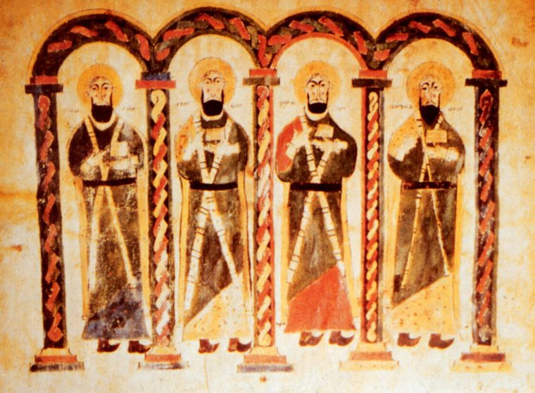 Gospel. Erevan, Matenadaran, Ms. 993/4804